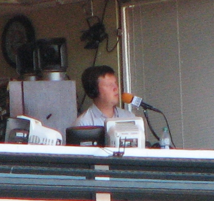 KNBR announcer Dave Flemming calls the April 10, 2013 San Francisco Giants-Colorado Rockies game at AT&T Park, San Francisco, CA.